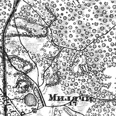 Myliach on the map "Военно-топографическая карта Российской Империи" (known as "Schubert's map"), XX 5, 1866-1887 (issued in 1913).